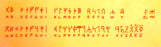 Here the two runic futharks recorded by Edward Larsson in Sweden 1885. They have been written down in alphabetic order, so that quick comparisons with other futharks can be made.